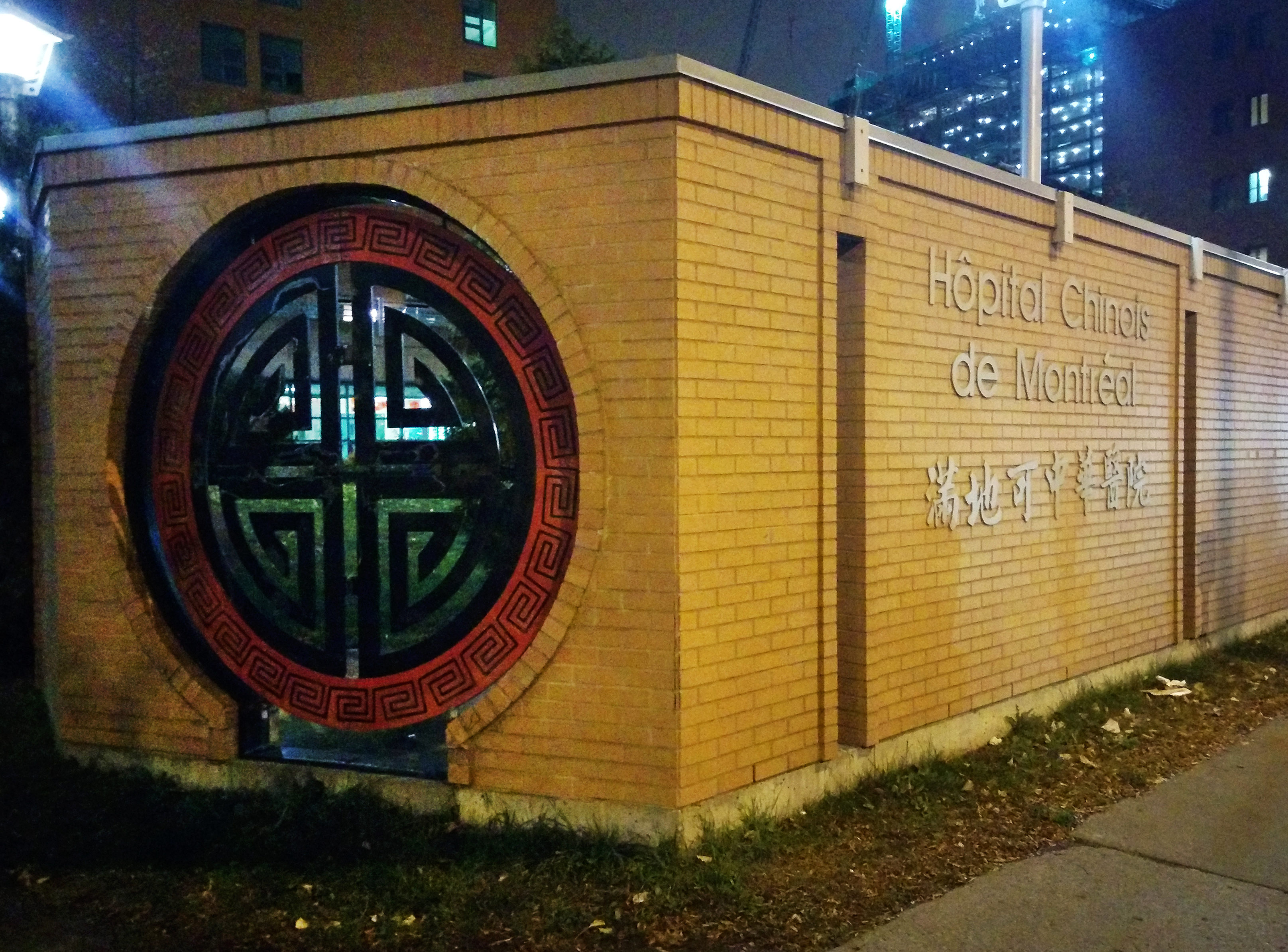 Decoration on the outside wall of the garden of the Montreal Chinese Hospital at 189, Avenue Viger Est, Montreal, Quebec, Canada. Photo taken in Chinatown, Montreal on 8 November 2014.